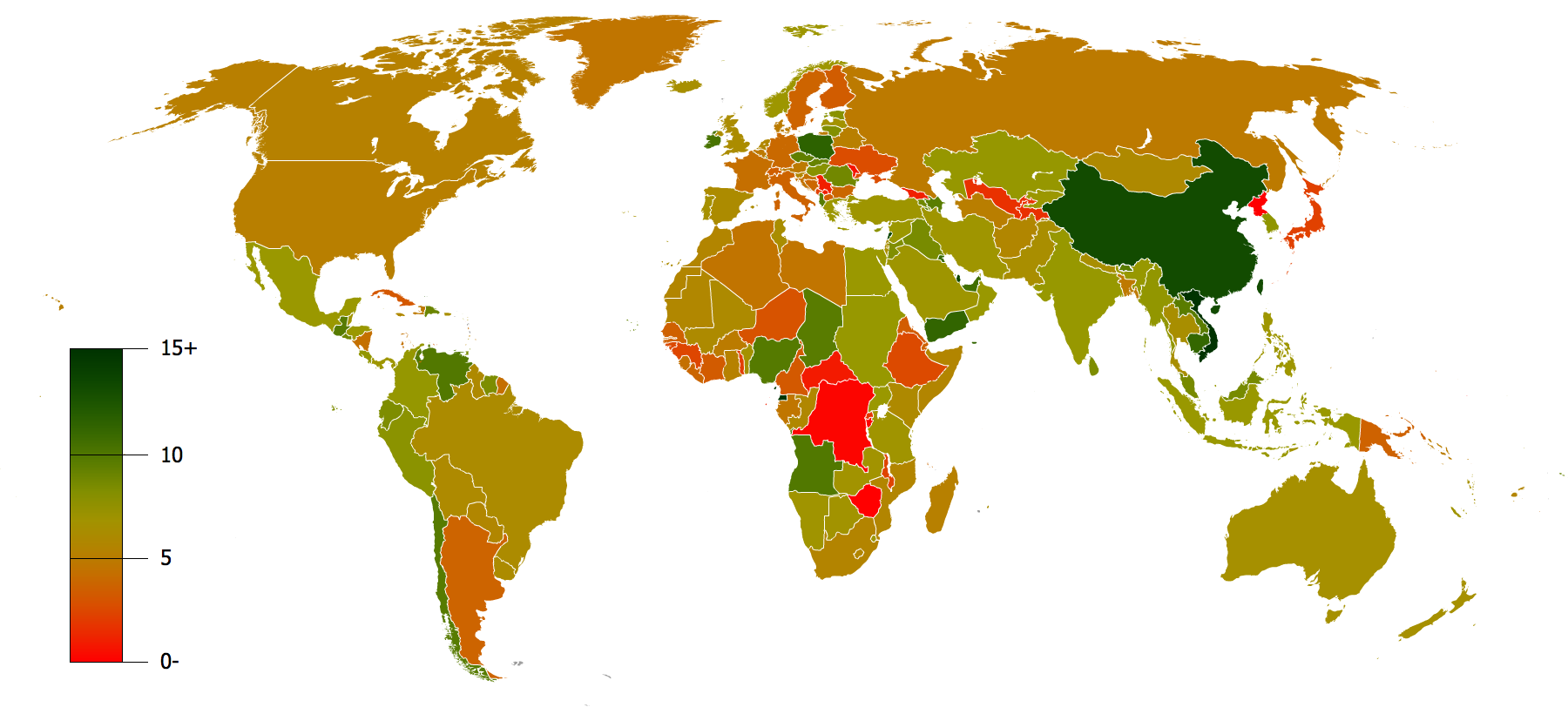 The GDP growth numbers were calculated from 1990 to 2007, and are reflected in the Wikipedia list of countries by GDP growth 1990–2007. For more information see also the respective disclaimer.